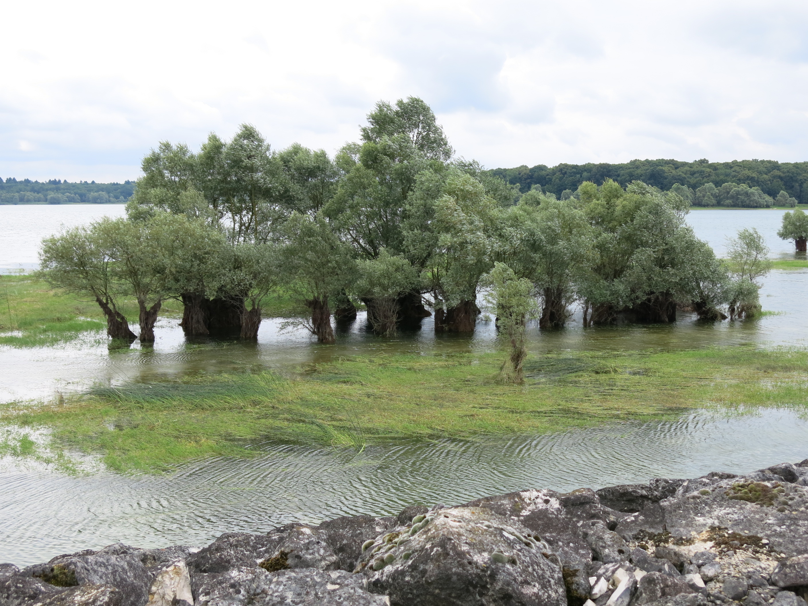 Willows on the lac du Temple (Aube, France).